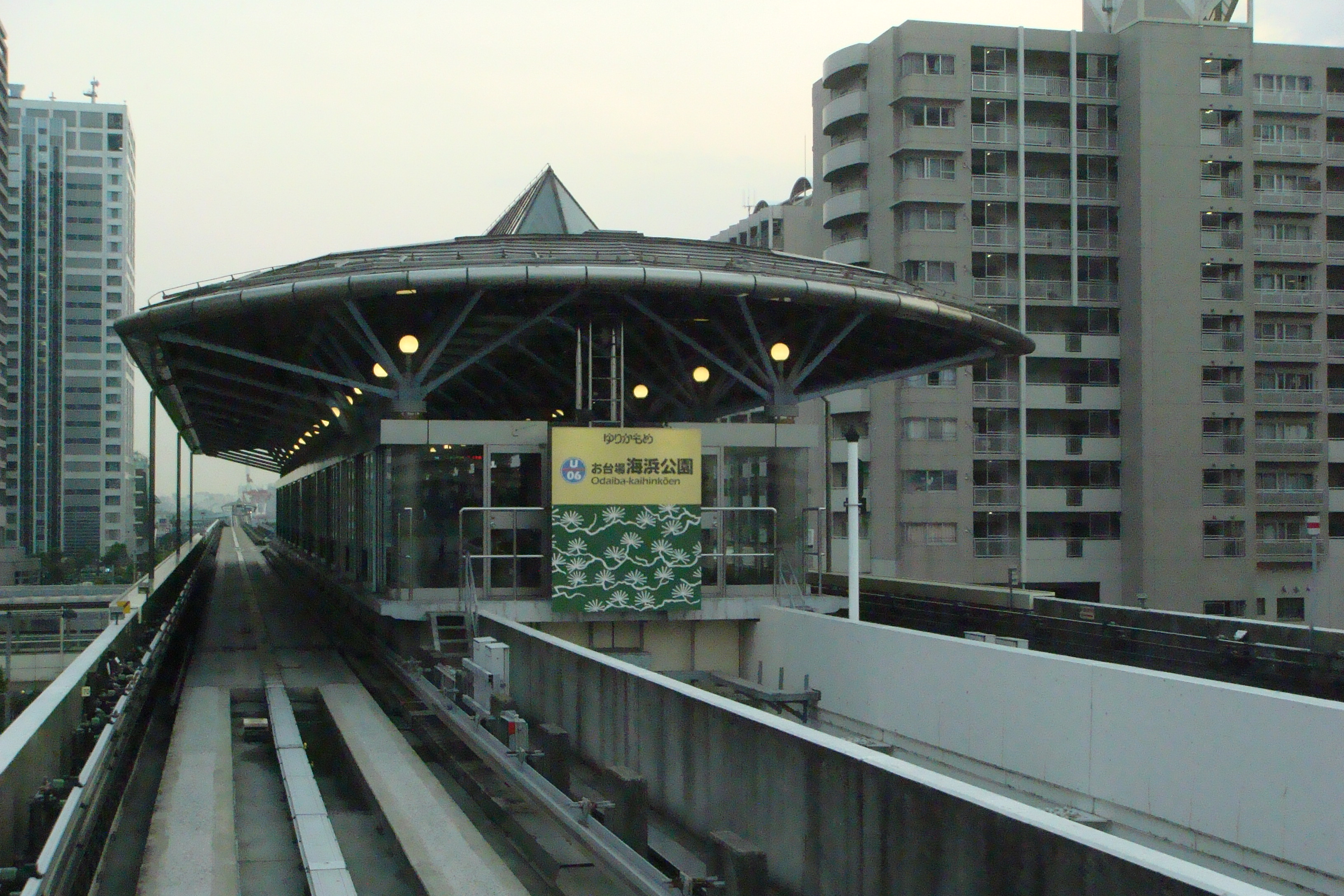 Odaiba-kaihinkōen Station (2008/05/16 Minato, Tokyo, JAPAN)